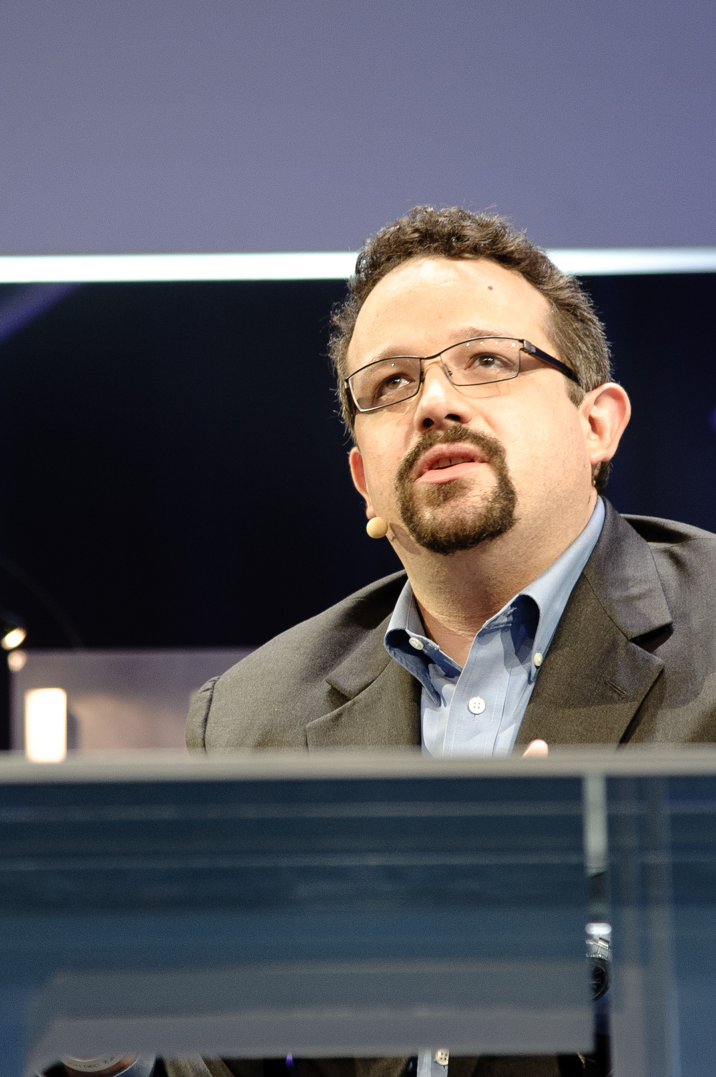 Photos by @jibees for LeWeb11 Conference @ Les Docks -Paris